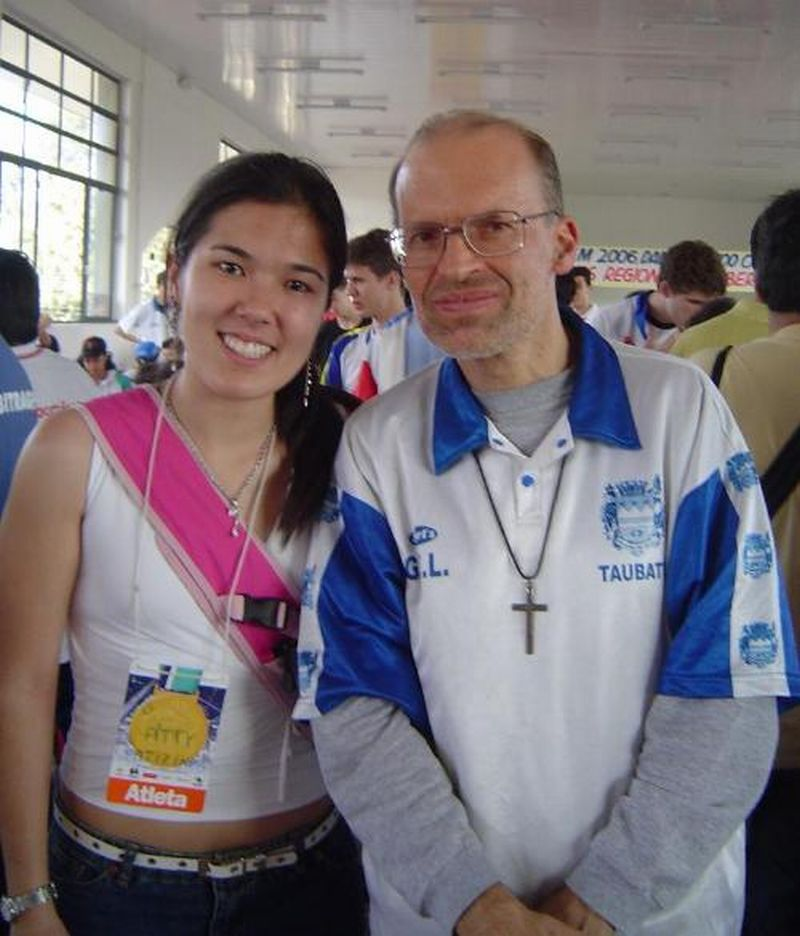 The Brazilian chessmaster Henrique Mecking (Mequinho). The girl with him is my niece, a young and promising chess player.